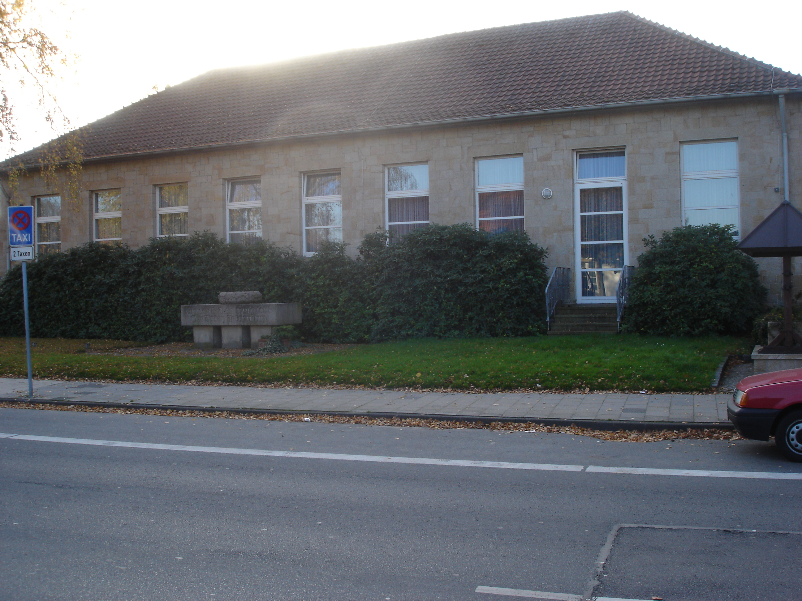 Dorfgemeinschaftshaus in Laggenbeck (borough of the city of Ibbenbüren).